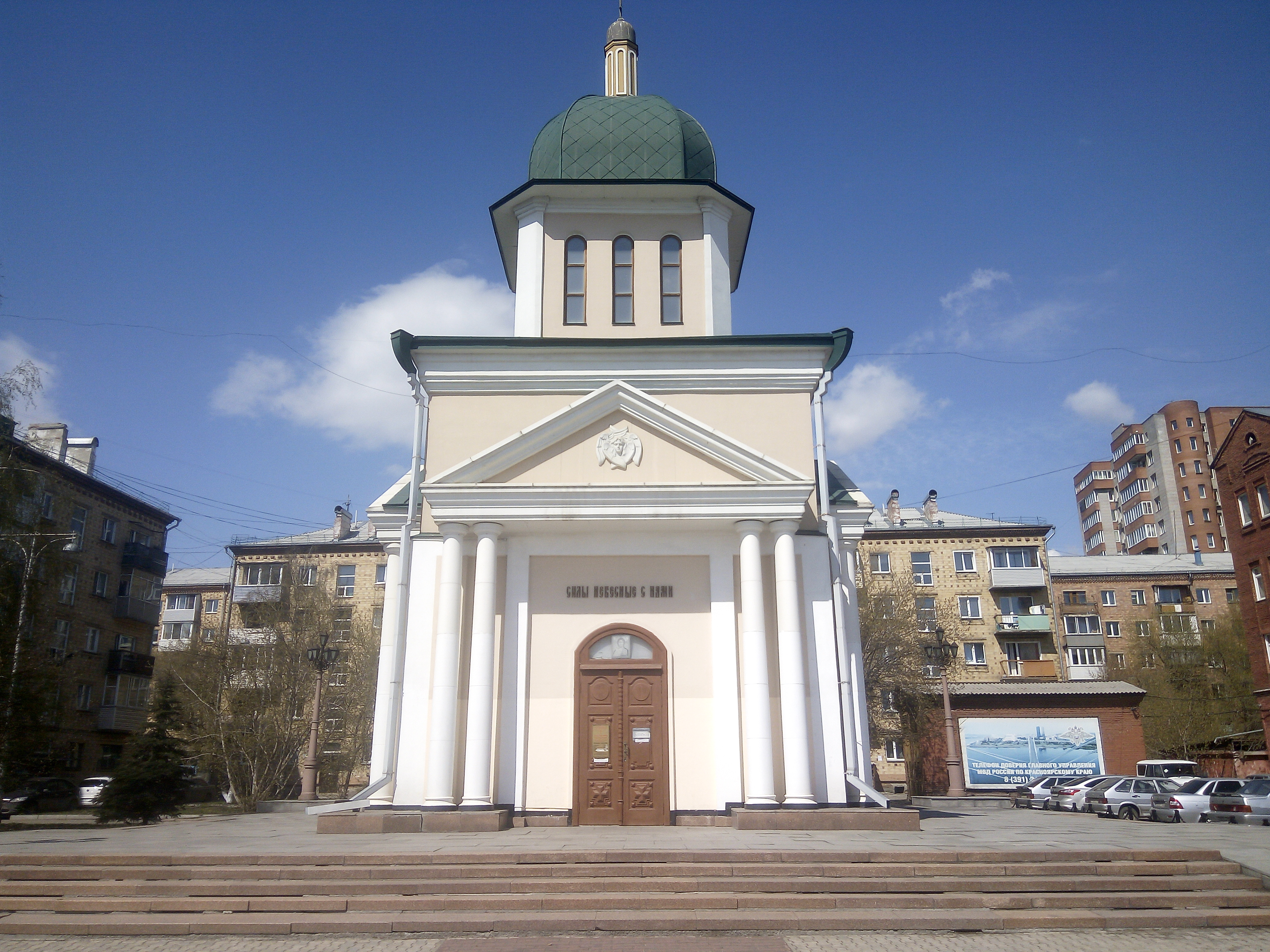 in title